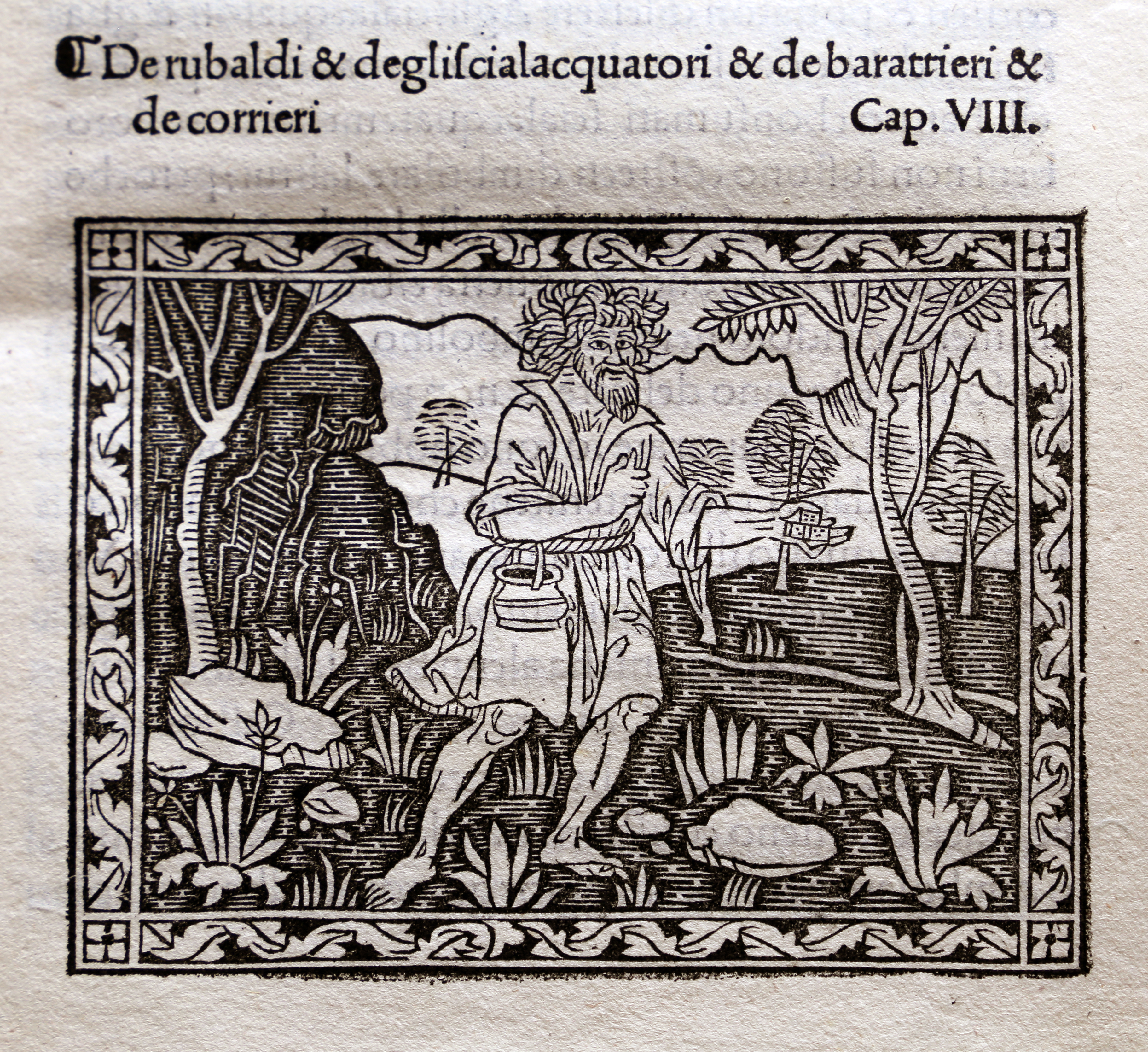 Libro di giuocho di scacchi (Crusca)